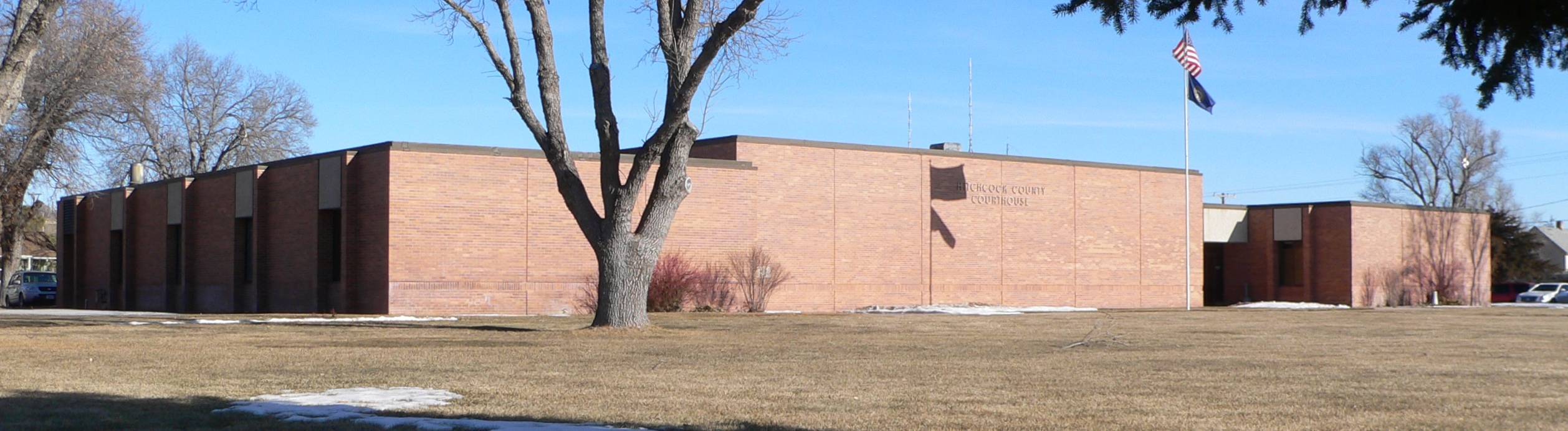 Hitchcock County courthouse in Trenton, Nebraska; seen from the southwest. The building was constructed in 1969.